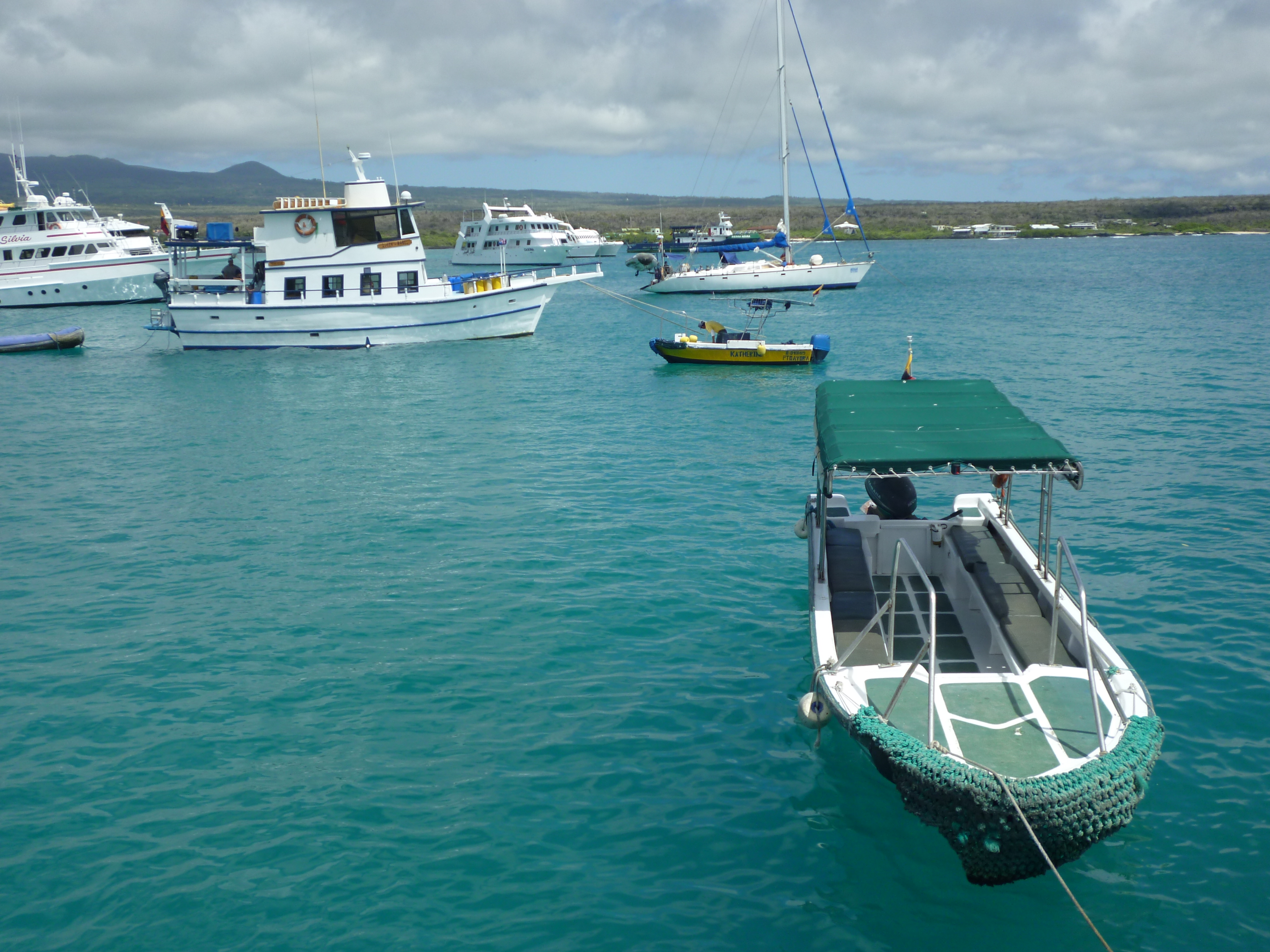 A Water taxi in Puerto Ayora, on the Island of Santa Cruz in the Galapagos by Professional photographer David Adam Kess - This photo was not digitally edited and depicts the true, natural color of the Pacific Ocean in the Galapagos